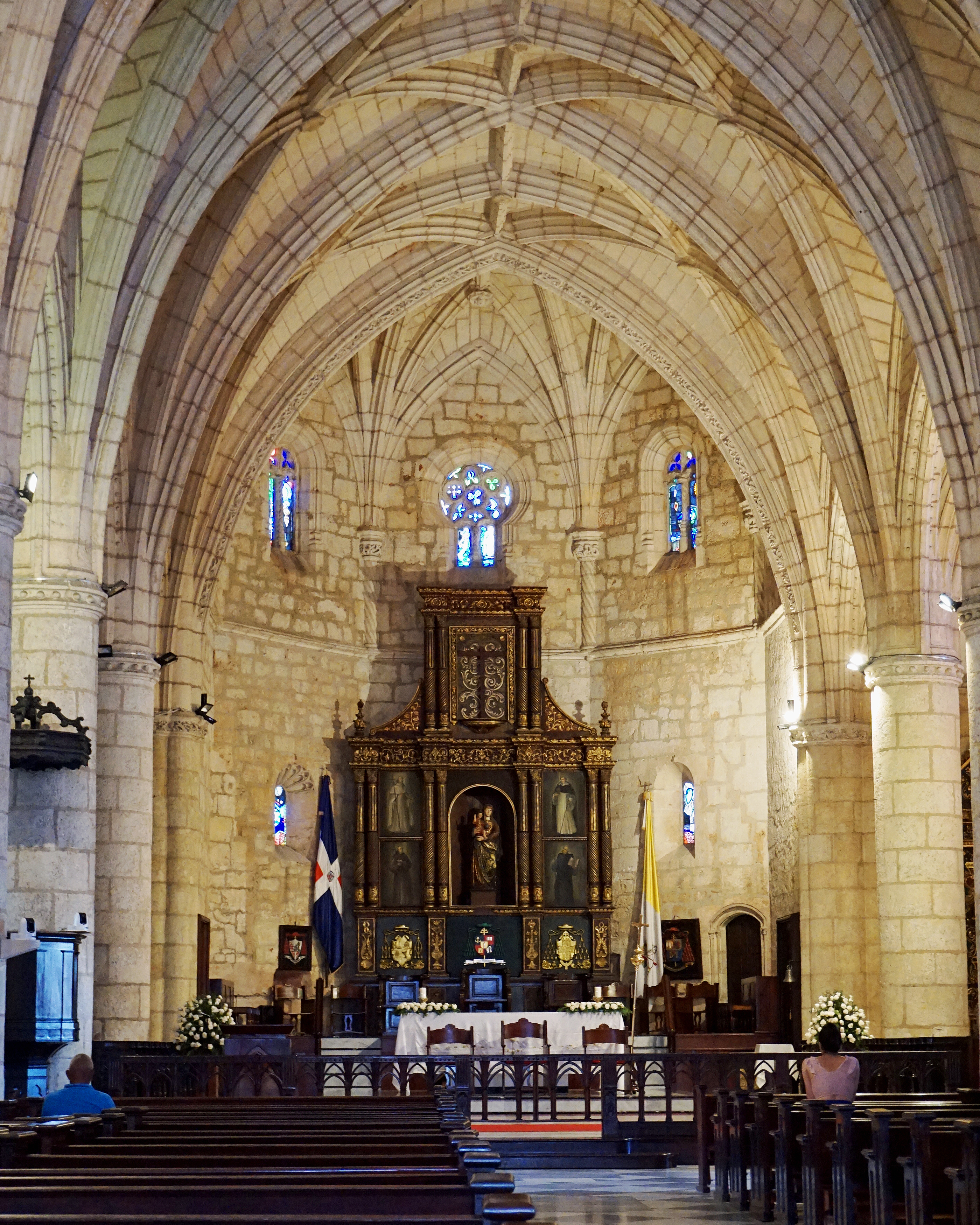 Interior Catedral Primada, Ciudad Colonial Santo Domingo, Dominican Republic.